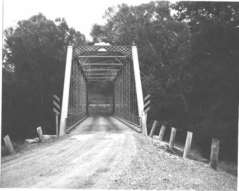 Quaker Bridge, which carries Legislative Route 43135 over the Little Shenango River in Hempfield Township, Mercer County, Pennsylvania, United States. Built in 1898, the bridge is listed on the National Register of Historic Places.